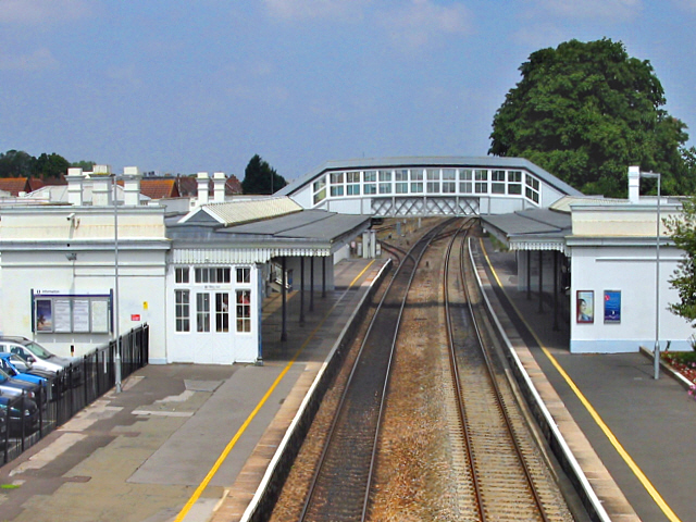 Bridgwater railway station Original description: Bridgwater Railway Station (1841) Designed by Isambard Kingdom Brunel and regarded as one of the best surviving GWR stations. On the Taunton to Bristol line.